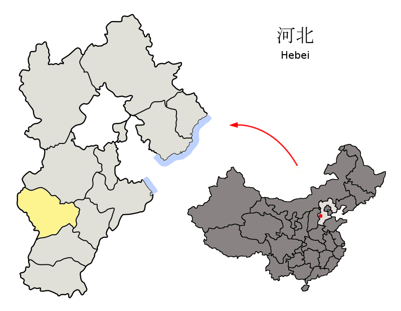 Location of Shijiazhuang Prefecture (yellow) within Hebei Province of China Map drawn in december 2007 using various sources, mainly : Hebei Province administrative regions GIS data: 1:1M, County level, 1990 Hebei Counties map from